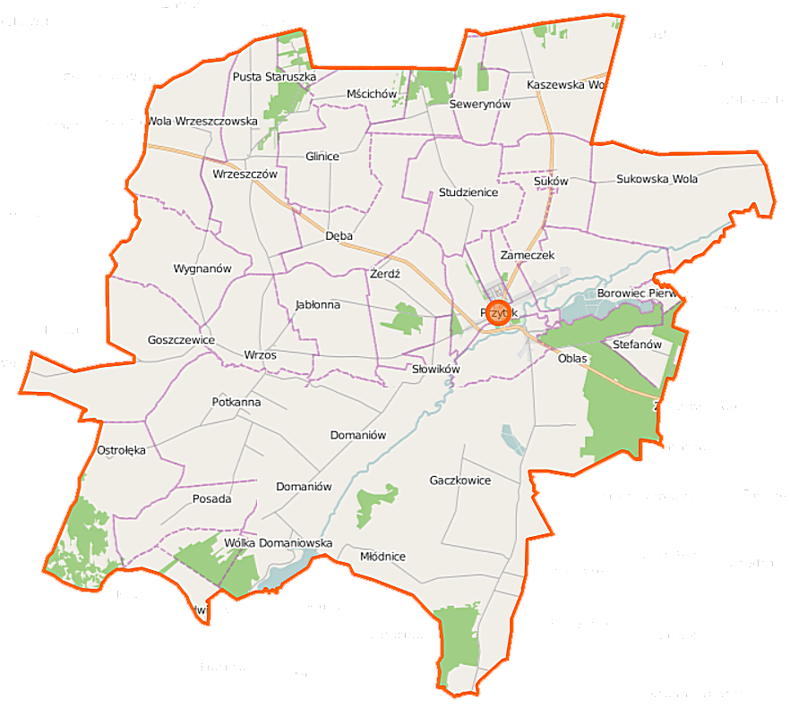 Map of Gmina Przytyk, Poland This map of Przytyk (gmina) was created from OpenStreetMap project data, collected by the community. This map may be incomplete, and may contain errors. Don't rely solely on it for navigation. Border coordinates51.528020.7511←↕→20.993851.3913